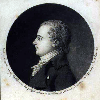 Børge Riisbrigh Thorlacius